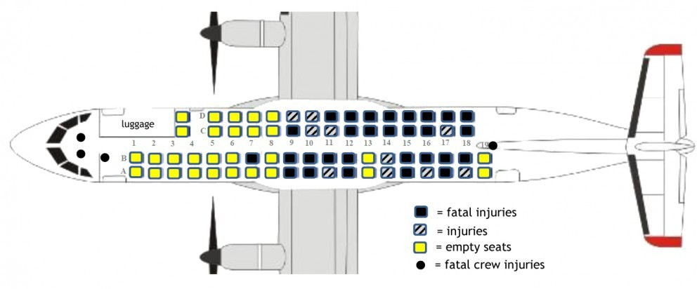 UTair Flight 120 Seat map